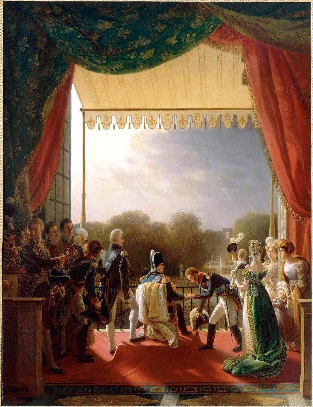 Portrait of Louis XVIII of France receiving Louis Antoine, Duke of Angoulême, on December 2, 1823, on a balcony of the Tuileries Palace after his successful military campaign in Spain.